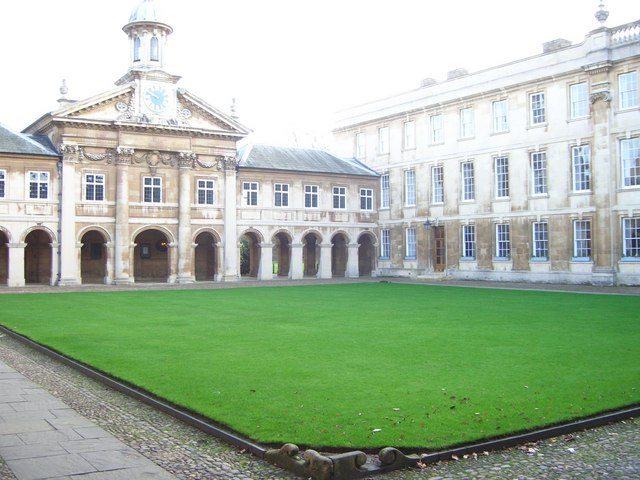 Emmanuel College Cambridge University